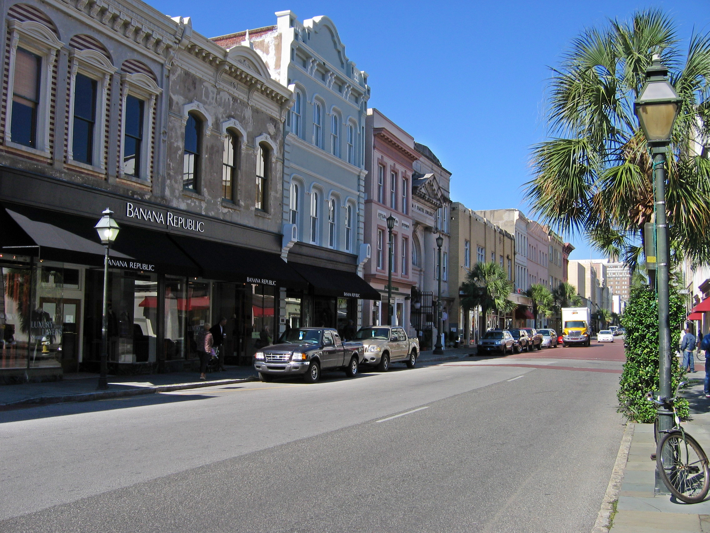 Shops along King Street in Charleston, South Carolina